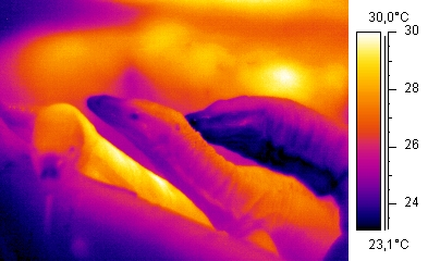 thermographic of a varano